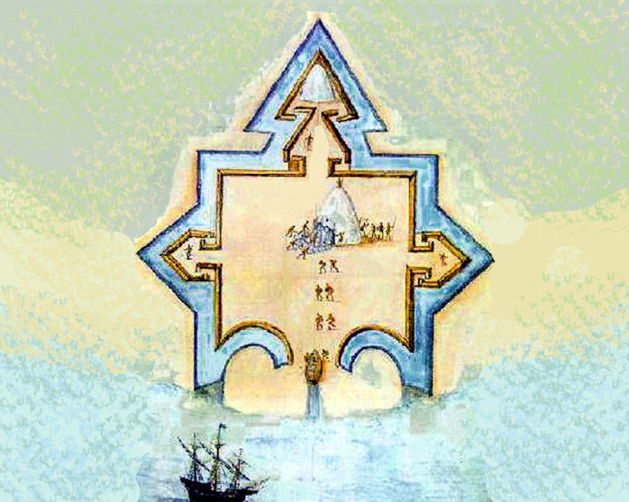 Drawing of Fort Elizabeth in Guyanilla Bay, Puerto Rico. The fort no longer exists and its location has not been discovered.